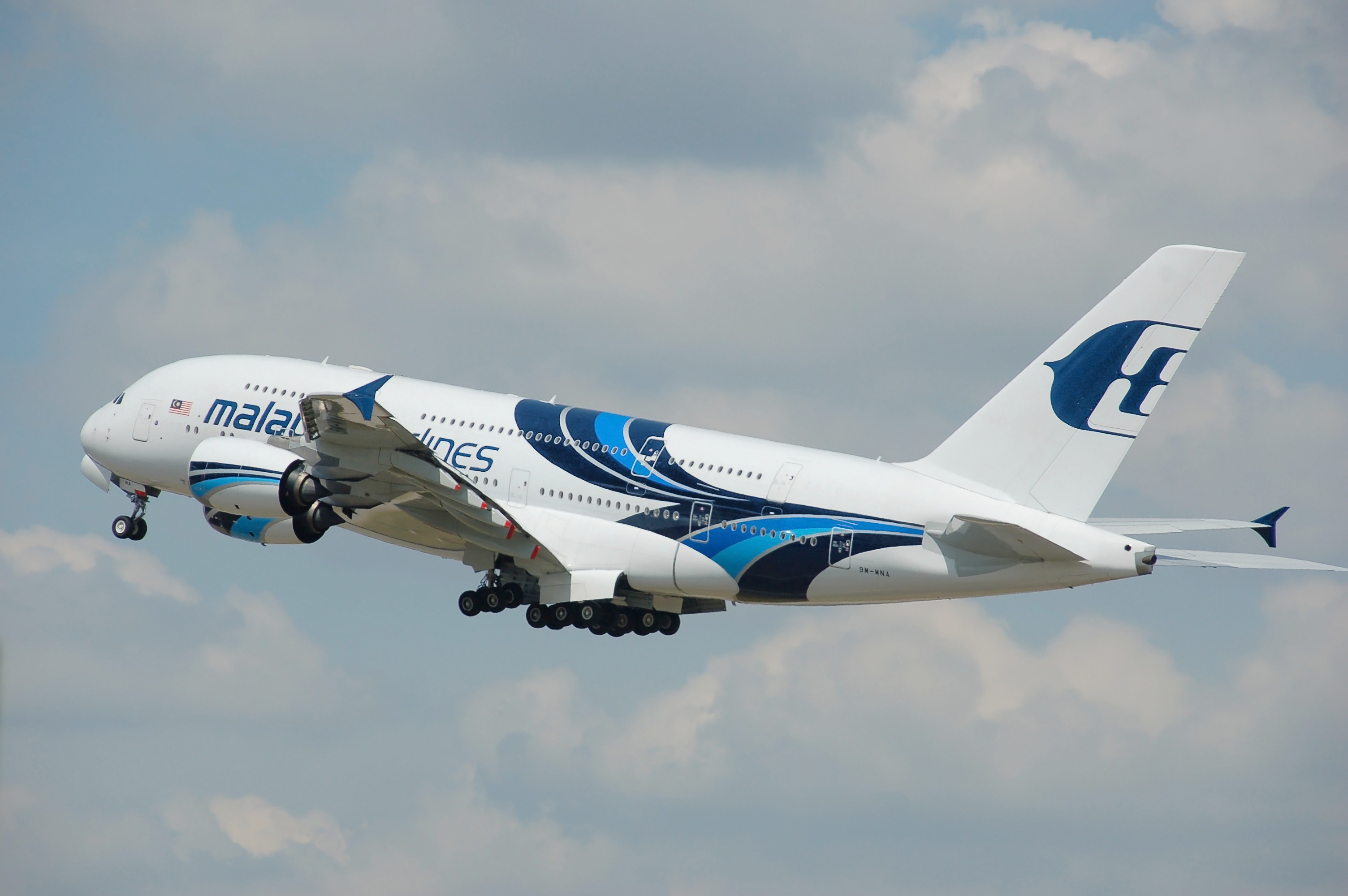 Malaysia Airlines Airbus A380-800 (9M-MNA) departs London Heathrow Airport, England. The undercarriages have not yet retracted.